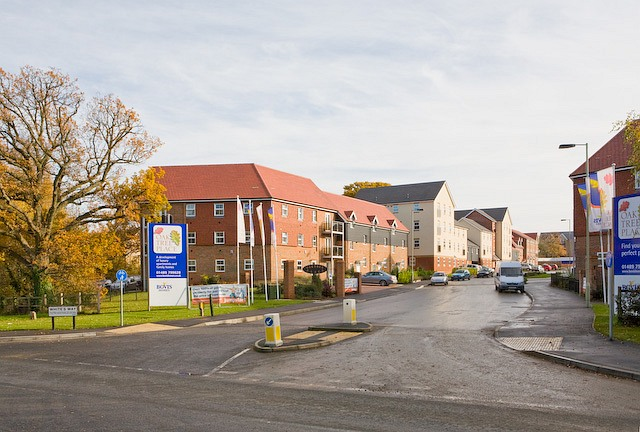 White's Way and its junction with Tollbar Way The access road to major housing developments on land formerly Dowd's Farm. The road sign says "Vera White owned Dowd's Farm and lived in the 17th century farmhouse until 2000". The blue sign says "Oak Tree Place a development of luxury apartments and family homes by Bovis Homes"